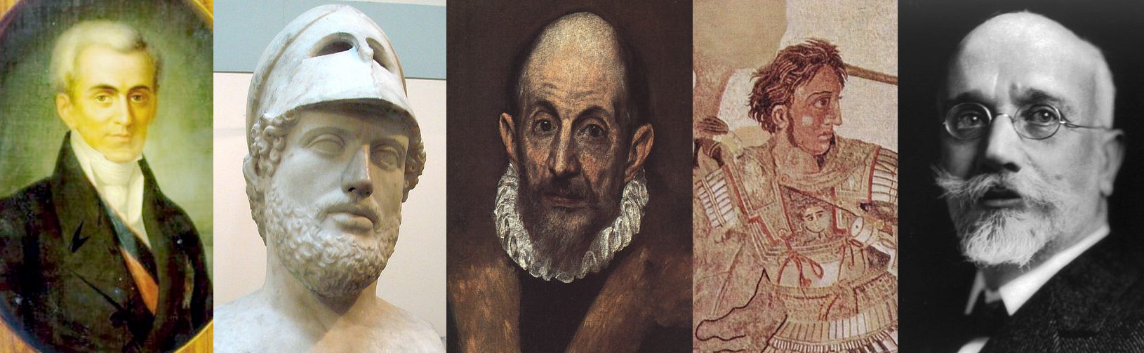 Composite image of five notable Greeks.